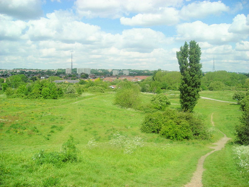 View of South Norwood Country Park